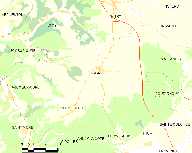 Map of French municipality Joux-la-Ville